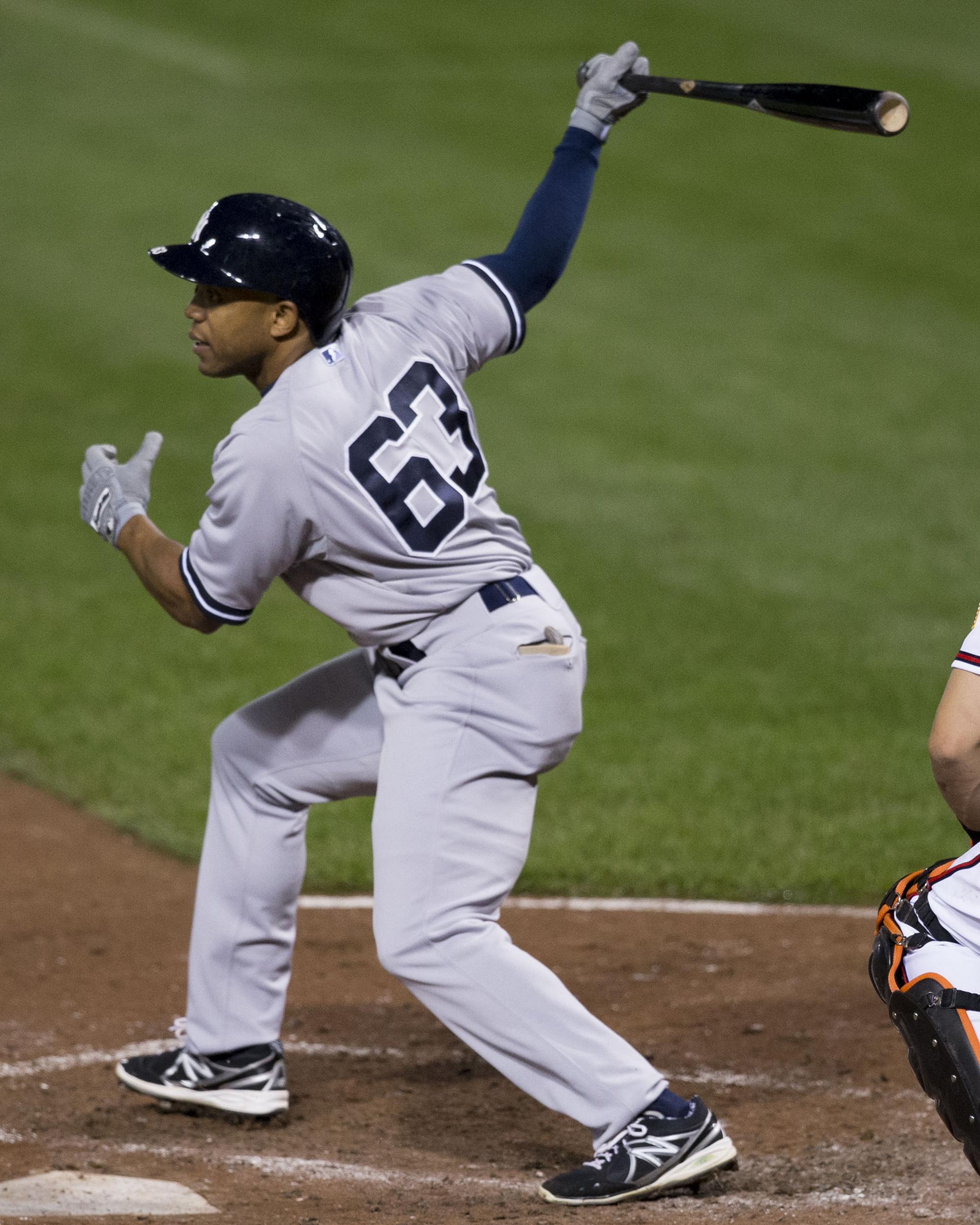 Antoan Richardson